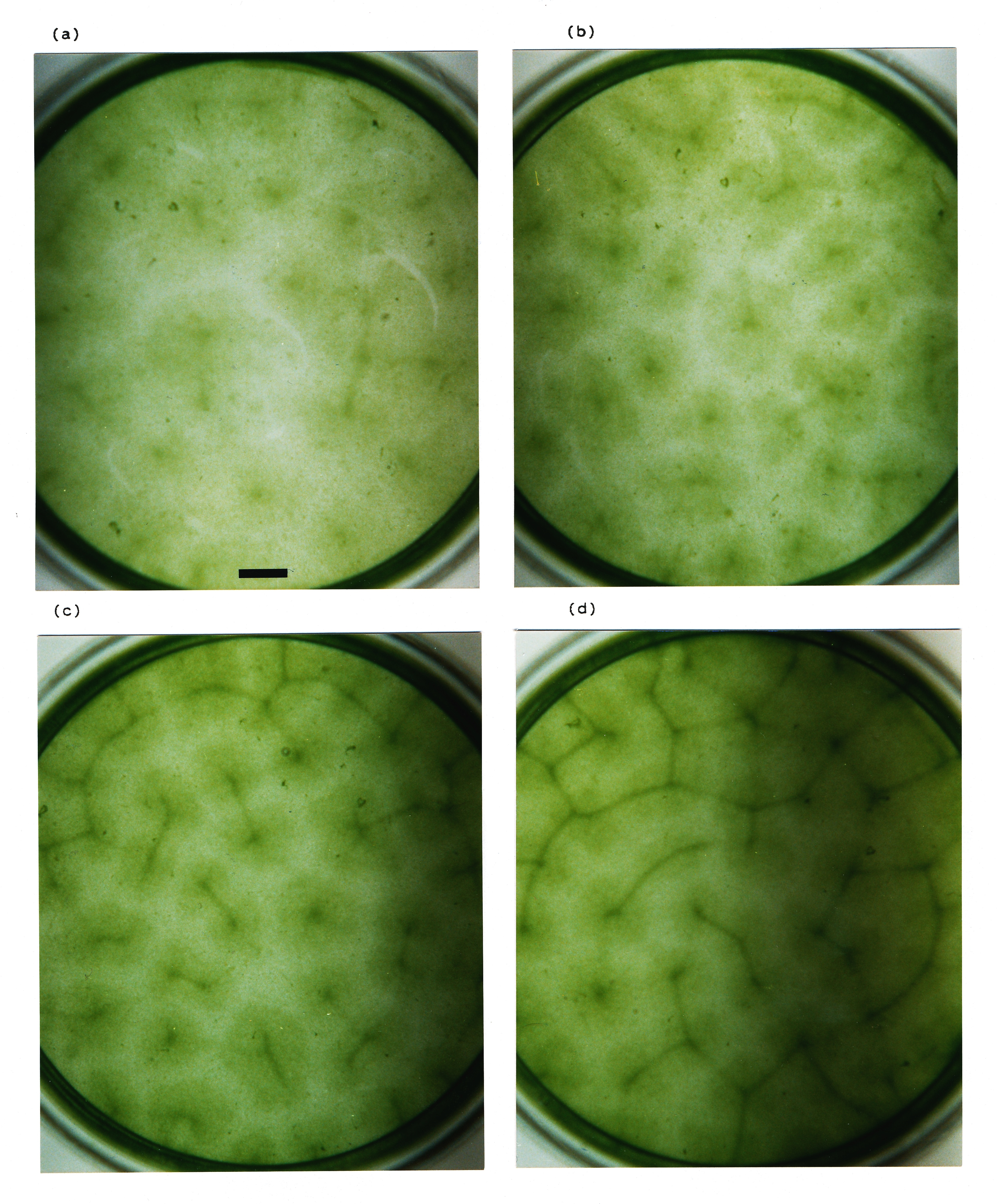 Bioconvection patterns of Euglena gracilis, culture concentration series